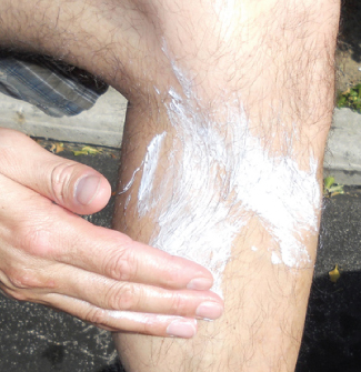 Image or illustration from the book: Chemistry Caption:Missing, please see book Book summary:Chemistry is designed for the two-semester general chemistry course. For many students, this course provides the foundation to a career in chemistry, while for others, this may be their only college-level science course. As such, this textbook provides an important opportunity for students to learn the core concepts of chemistry and understand how those concepts apply to their lives and the world around them. The text has been developed to meet the scope and sequence of most general chemistry courses. At the same time, the book includes a number of innovative features designed to enhance student learning. A strength of Chemistry is that instructors can customize the book, adapting it to the approach that works best in their classroom.